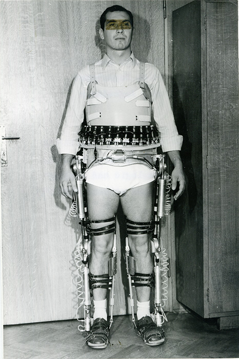 A team member tried active exoskleton, 1972. in Belgrade